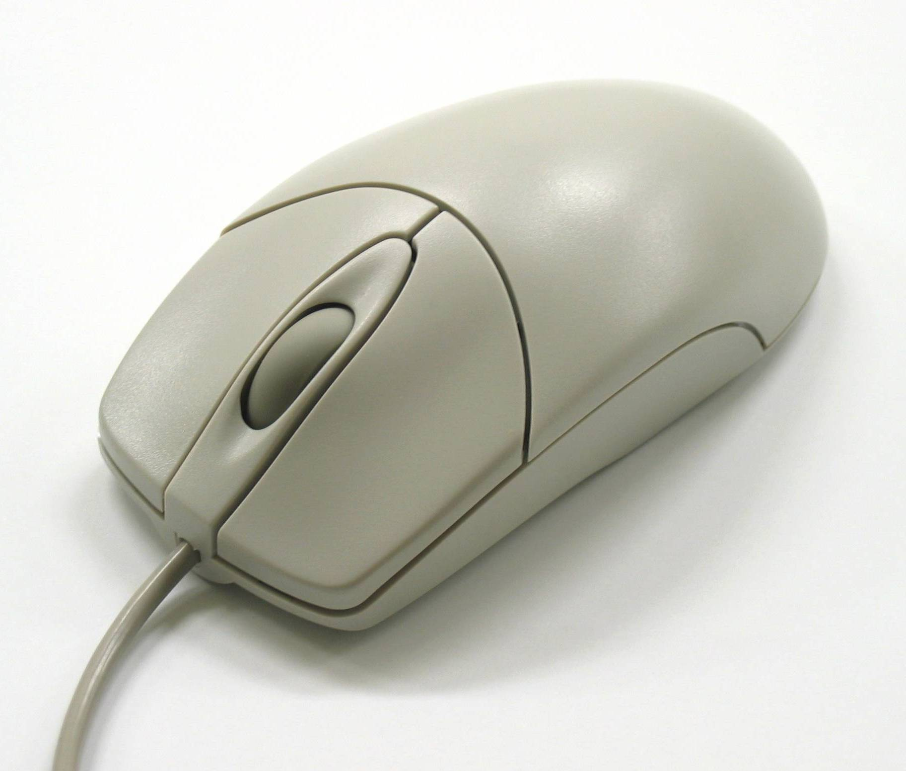 A computer mouse, a scroll wheel is between buttons.